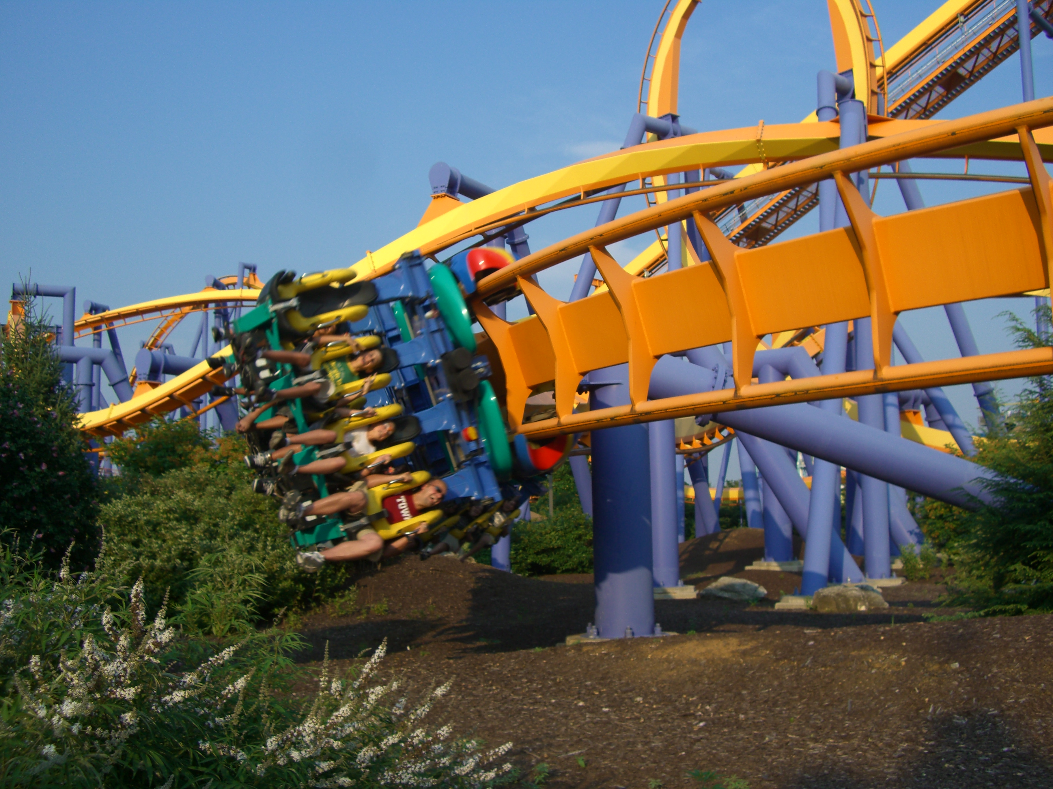 Talon's steeply banked, low-to-the-ground turn towards the end of its circuit at Dorney Park.